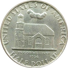 Obverse of a 1936 Delaware Swedish tercentenary commemorative half dollar.